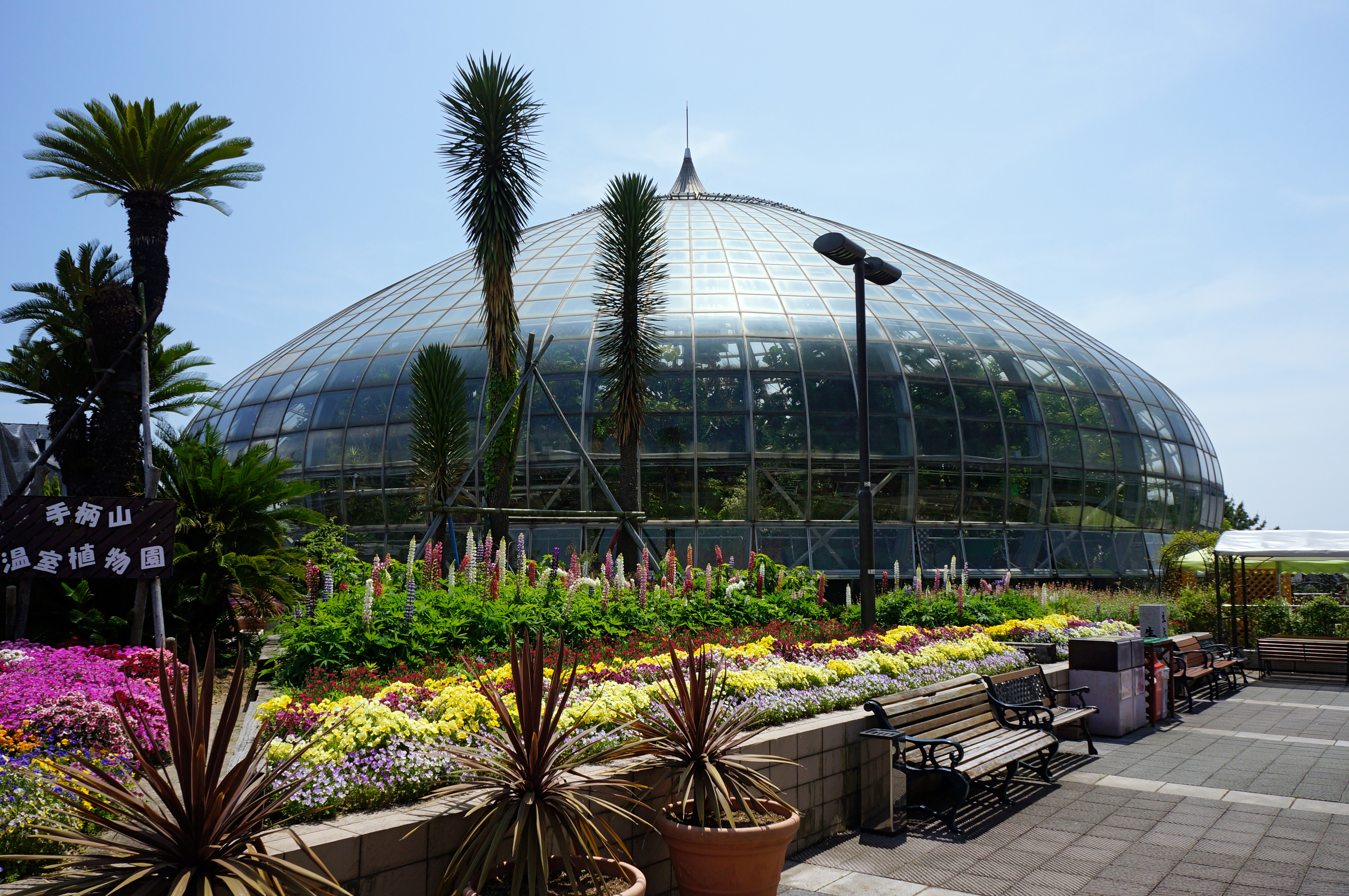 Himeji City Tegarayama Botanical Garden in Himeji, Hyogo prefecture, Japan.